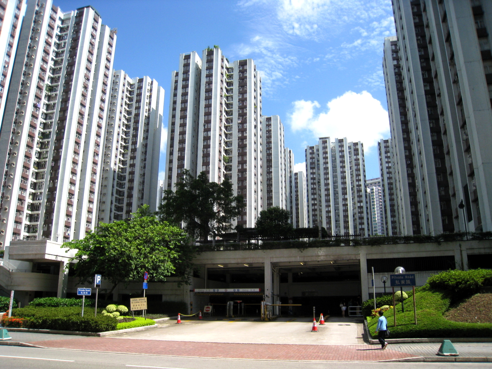 HK Taikoo Shing Harbour View Gardens East 太古城 星輝台